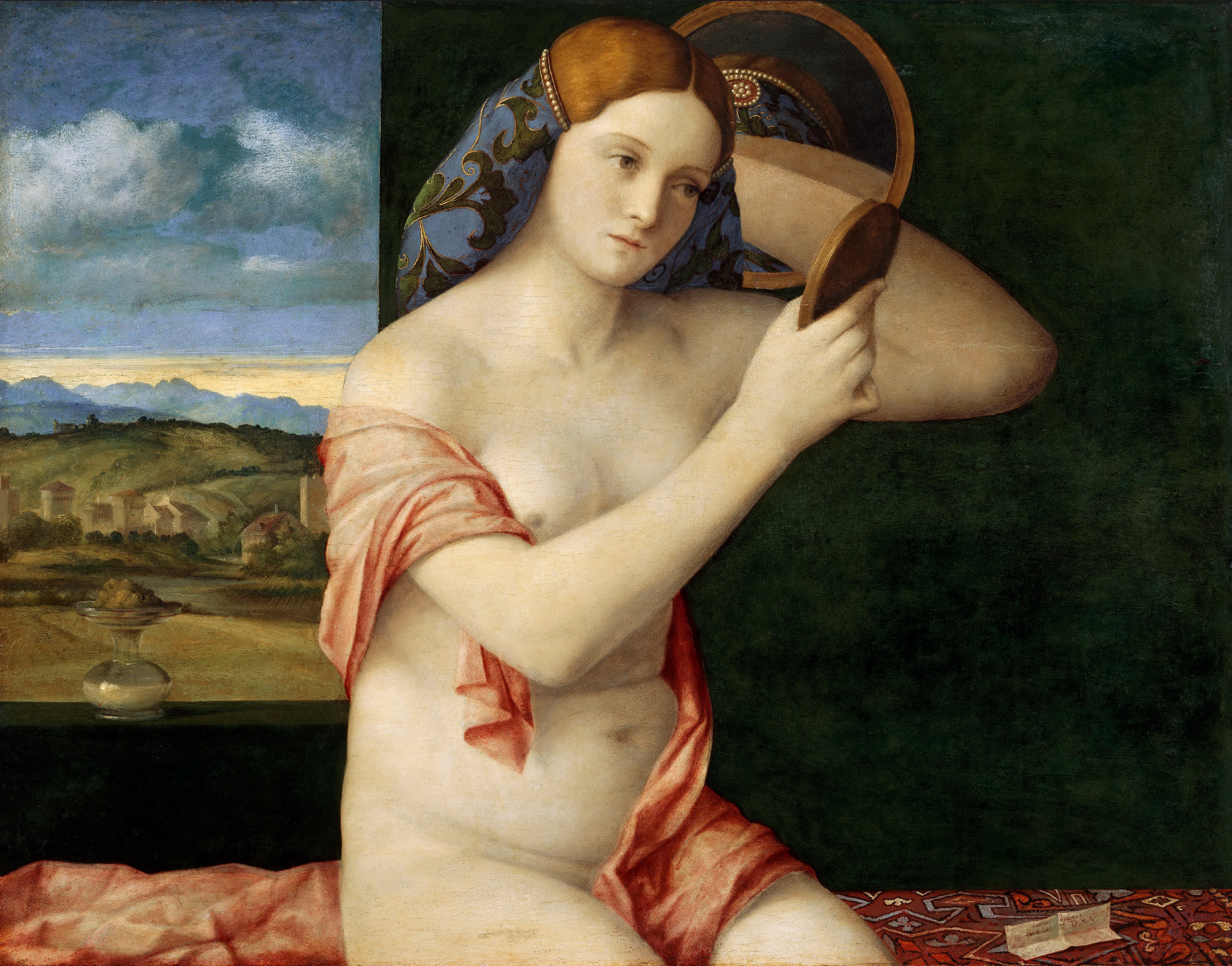 Giovanni Bellini frau bei der toilette